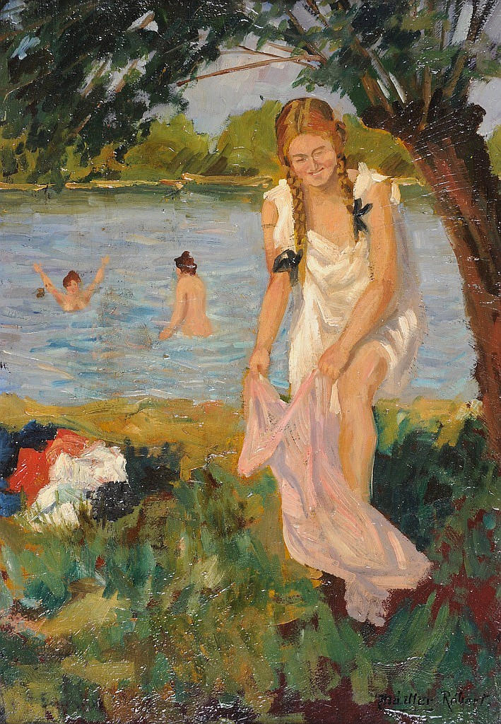 Untitled